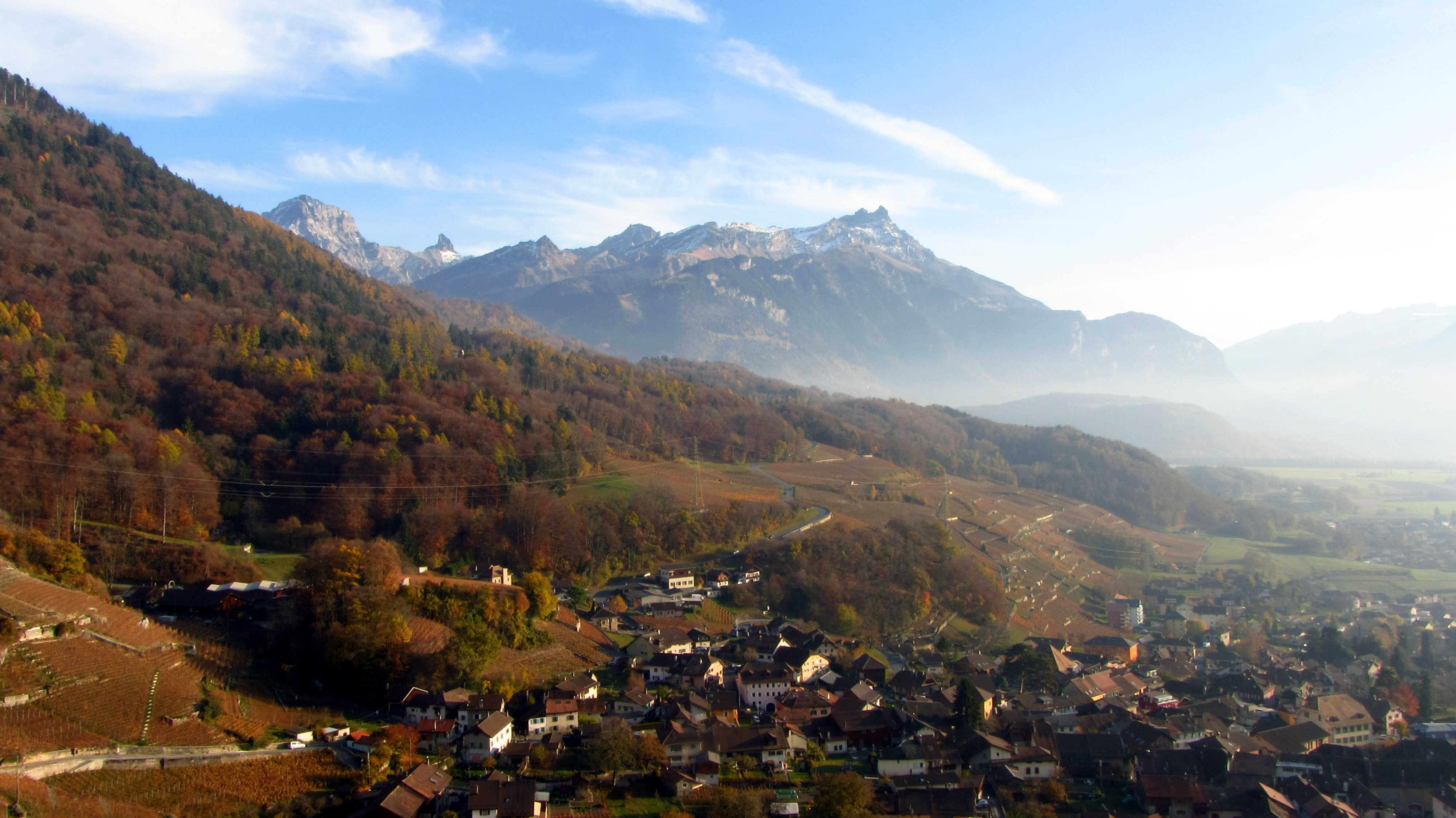 Ollon, Vaud, Switzerland